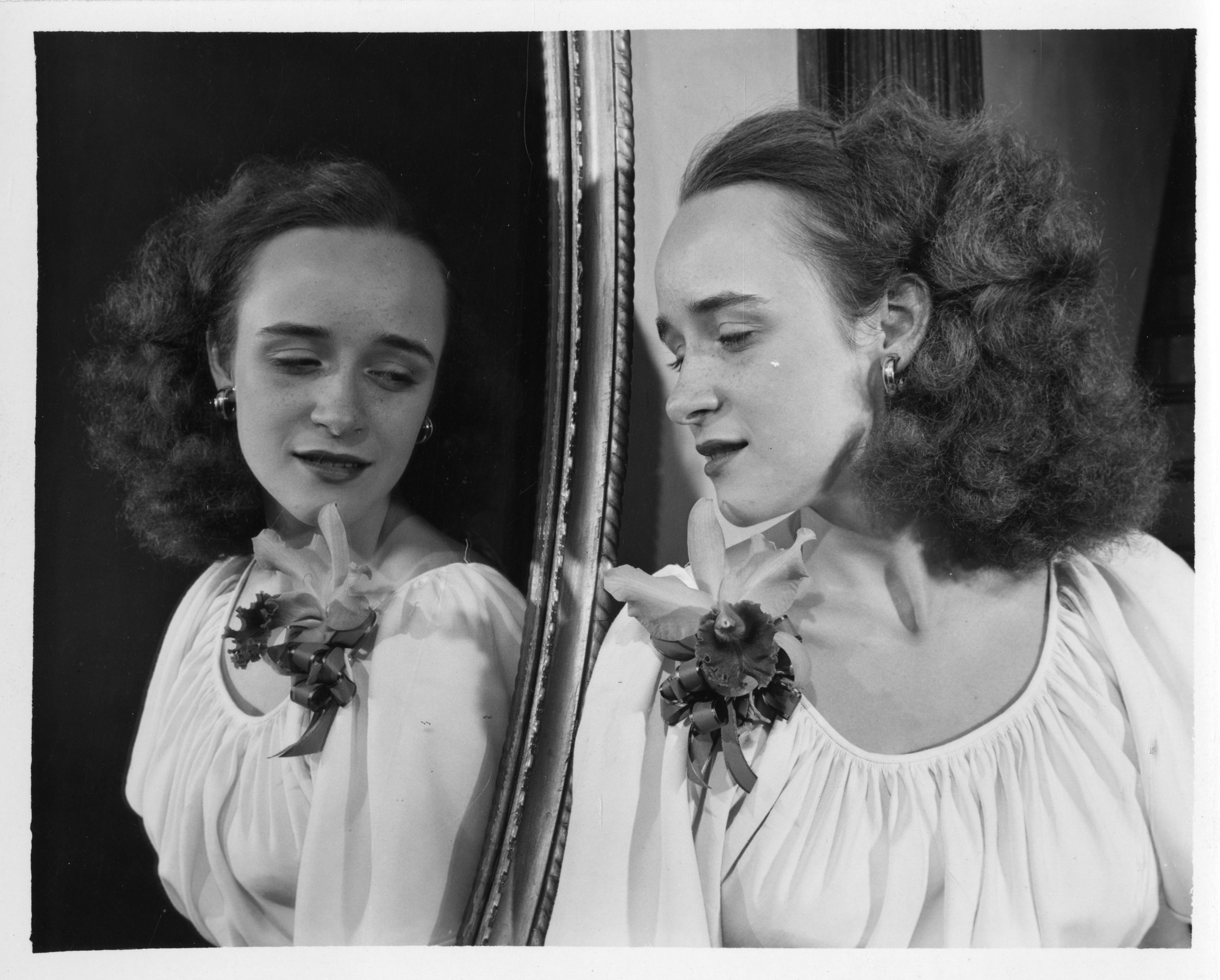 Acc 90-105, Box 15, Folder Portraits MOO; Posing by mirror, Charlotte Davis Mooers, information retrieval and programming language research.